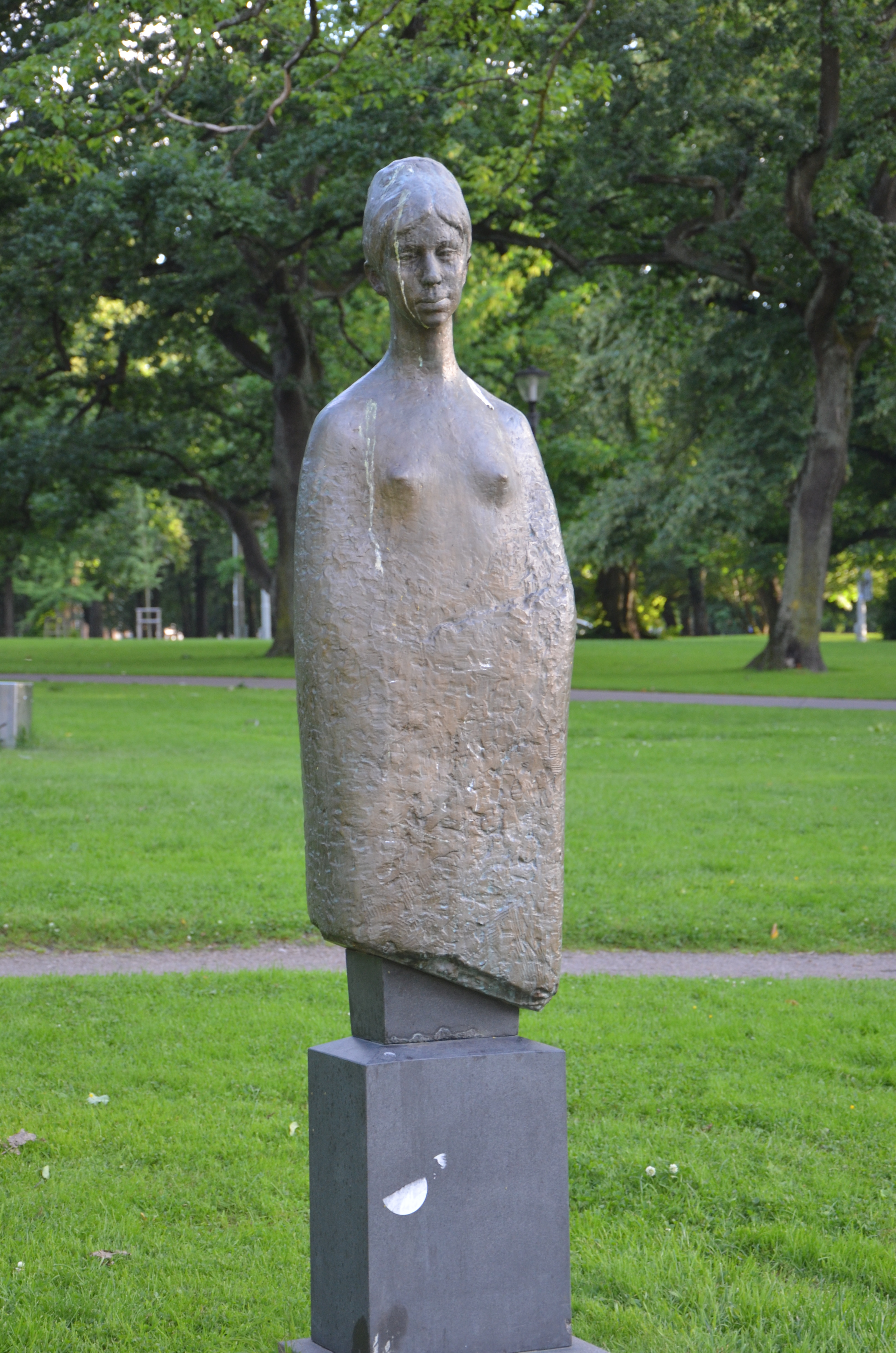 Gunvor Svensson Lundkvists Våren ,1995, Kungsparken, Göteborg